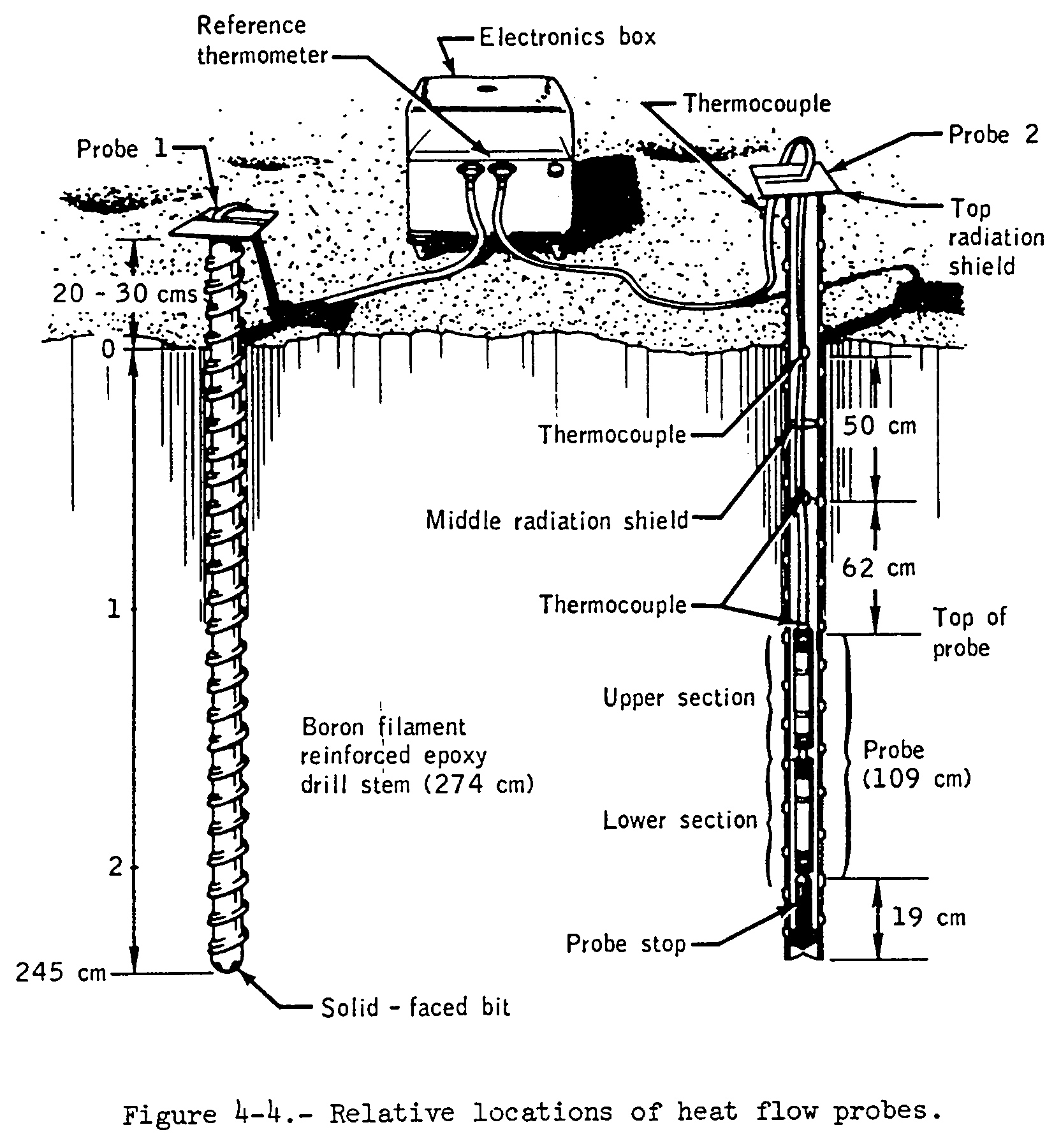 Diagram of the Heat Flow Experiment with relative locations of heat flow probes. Part of the ALSEP.